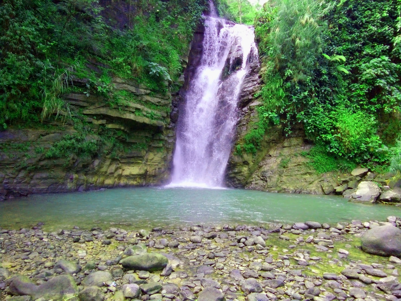 Curug Duwur Karang Pucung